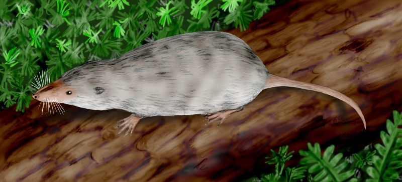 Adelobasileus cromptoni, a mammaliaform from the Late Triassic of Texas. Digital.